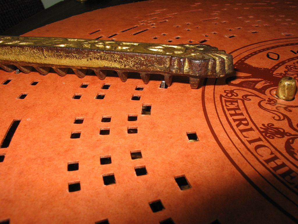 Sampling mechanism of an Ariston